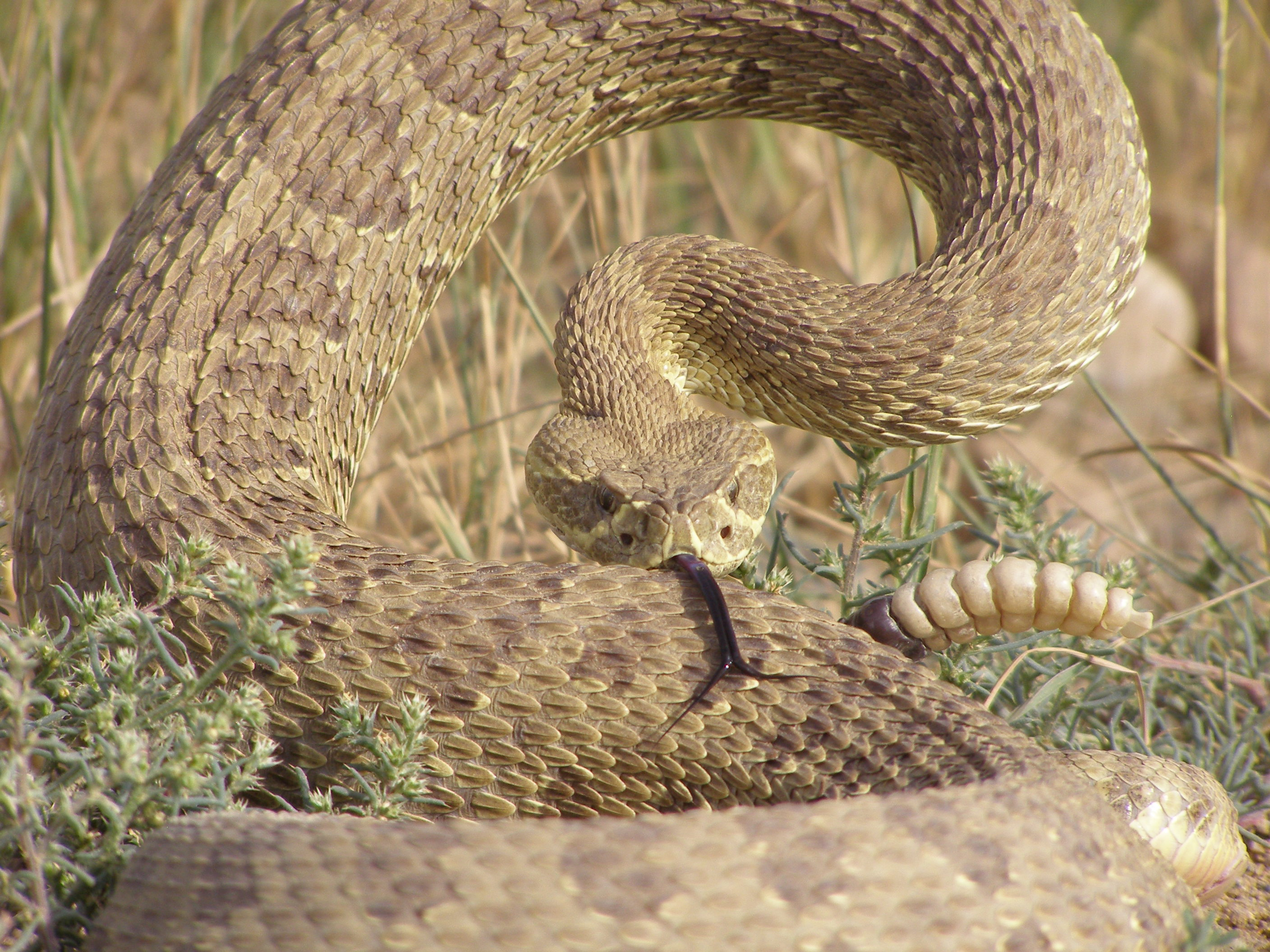 Wyoming has an unbelievable variety of world class wildlife. From grizzly bears to marmots, golden eagles to cutthroat trout, Wyoming offers something for everyone. BLM lands are vital to big game, upland game, waterfowl, shorebirds, songbirds, raptors and hundreds of species of non-game mammals, reptiles, and amphibians.As you drive through Wyoming, you can’t help but see pronghorn (commonly called antelope after its African cousin). The pronghorn is the fastest land animal in North America, running up to 55 mph. There are almost as many pronghorn in Wyoming as people! Besides pronghorn, Wyoming also is home to many other game animals including bighorn sheep, mountain goat, elk, mule deer, white tail deer and moose. Mammals of all sizes are abundant: marmots, chipmunks, skunks, raccoons, badgers, rabbits, beaver, prairie dogs, coyotes, foxes, mountain lions and bears. If you look overhead, try to spot a golden eagle, a Swainson’s hawk or peregrine falcon. Listen closely and you’ll hear the distinctive song of Wyoming’s state bird the western meadowlark. Wyoming is also home to about 40 percent of the Greater Sage-Grouse in the United States. Anglers travel from all over to take advantage of Wyoming’s world class trout fisheries. Wyoming streams and lakes provide habitat for cutthroat, rainbow, brown, brook, lake, and golden trout. Other popular game fish include walleye, sauger, pike, grayling, ling, bass, bluegill, sunfish, catfish, and carp. Wyoming also manages habitat for several endangered or threatened species like the black footed ferret, the Canada lynx, grizzly bears, trumpeter swans, and the Wyoming toad. BLM Wyoming manages wildlife habitat in cooperation with other state and federal agencies. When authorizing land use activities, the needs of wildlife, fish and plants must be taken into consideration. Wyoming’s wildlife is truly worth the watching!